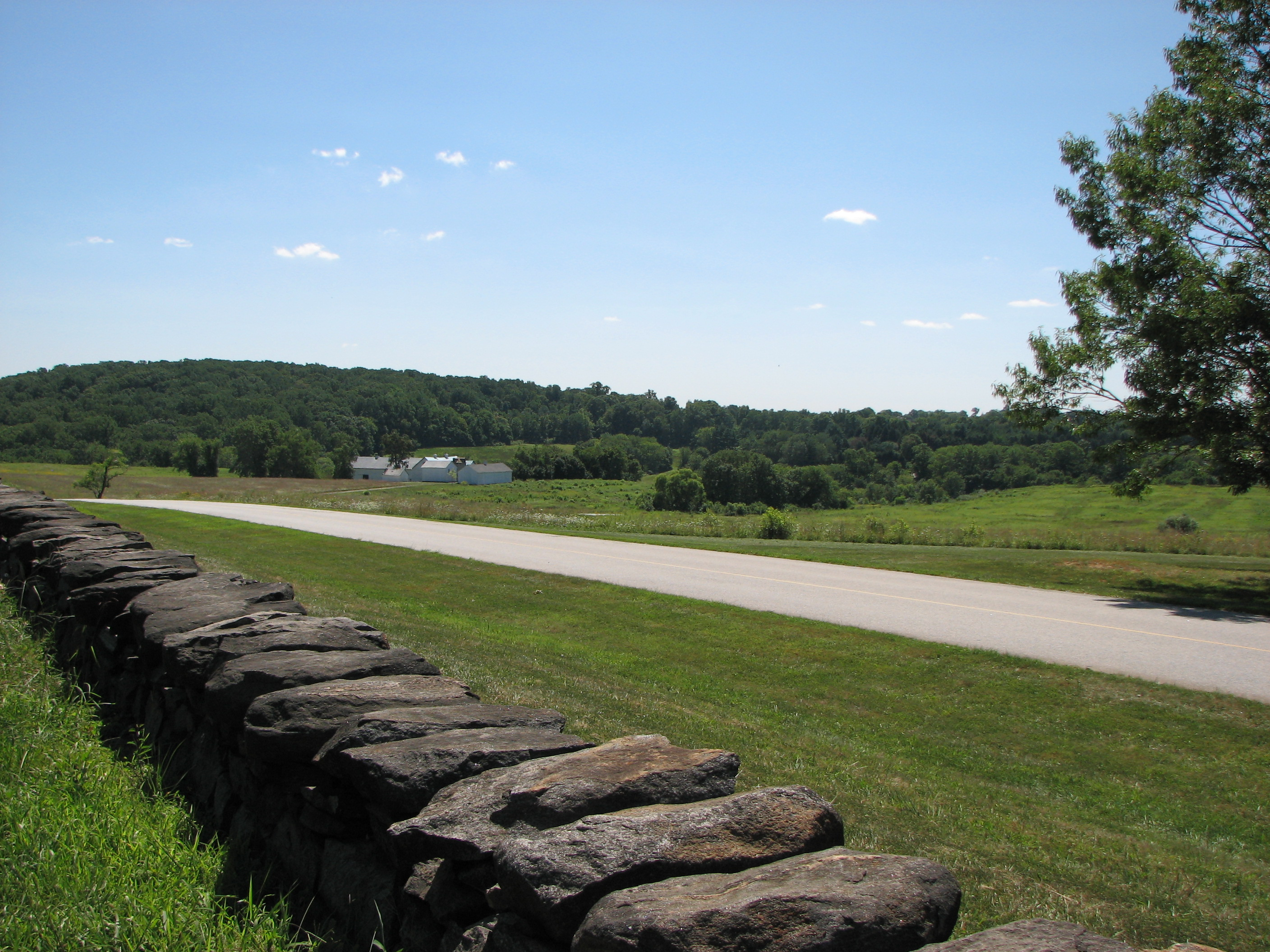 View south-southwesterly from near the park headquarters at Brandywine Creek State Park, showing forest and a farm on park lands.